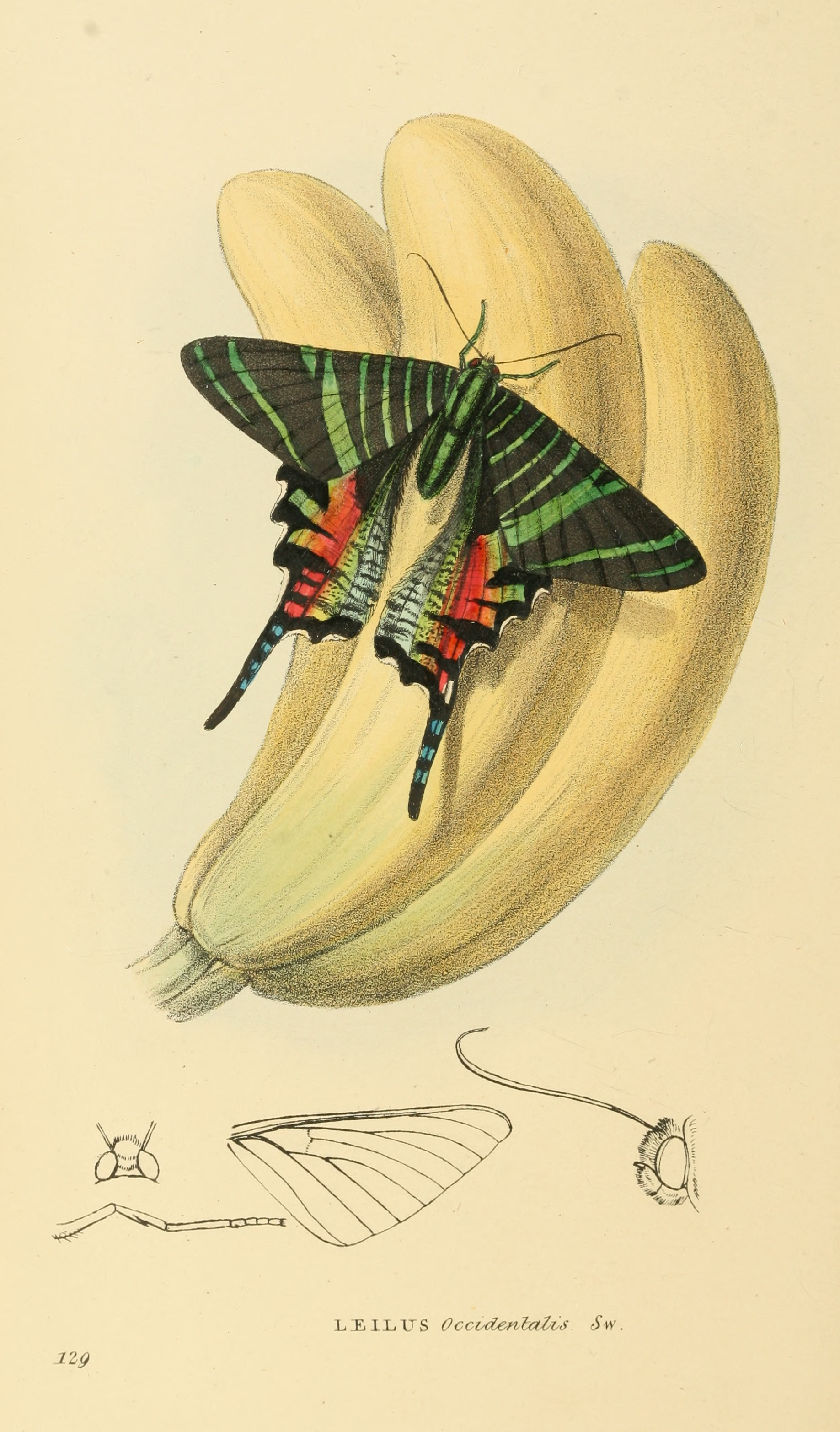 Plate from Zoological illustrations, Volume 3, 2nd series. Leilus Occidentalis = Papilio Sloaneus Cr. Accepted as Urania sloanus (extinct)[1]